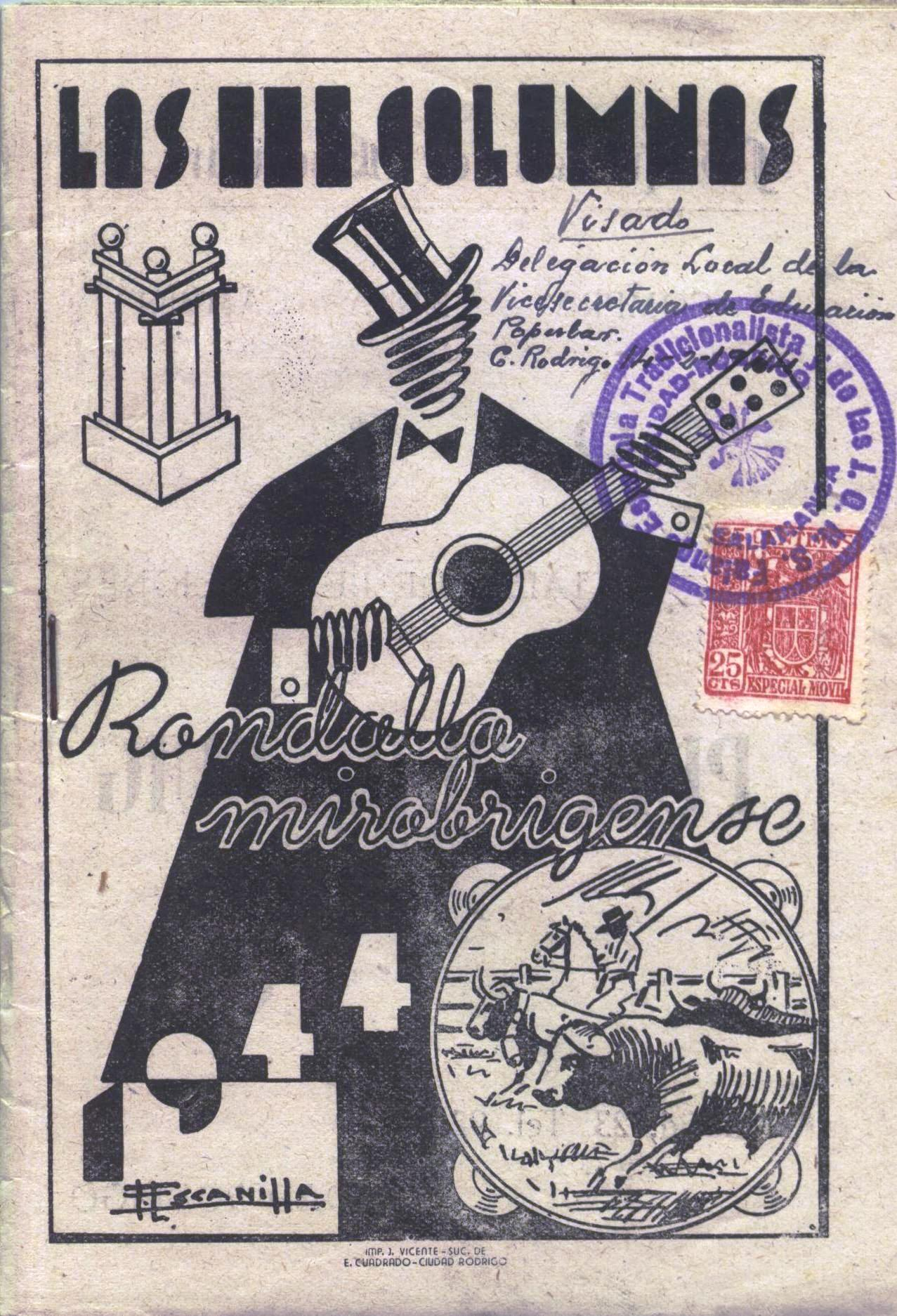 Libro de coplas de 1944, con el visado gubernativo